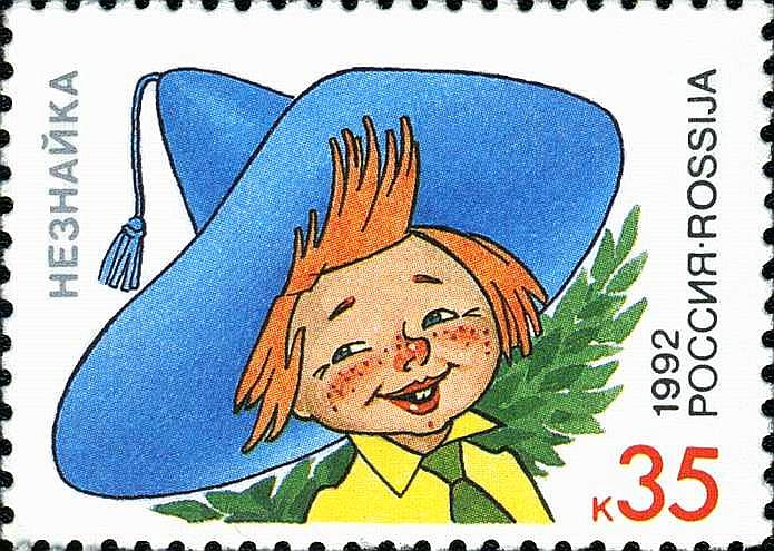 A Russia stamp